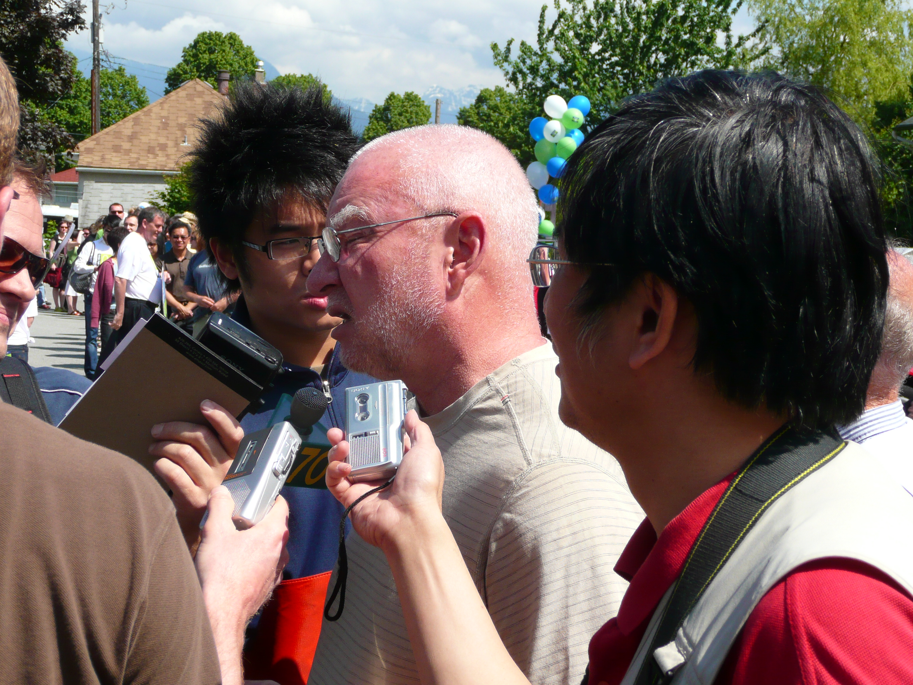 Former Vancouver Mayor Larry Campbell in 2009